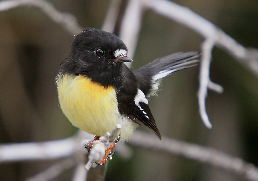 South Island Tomtit (Petroica macrocephala macrocephala) at Franz Josef Glacier